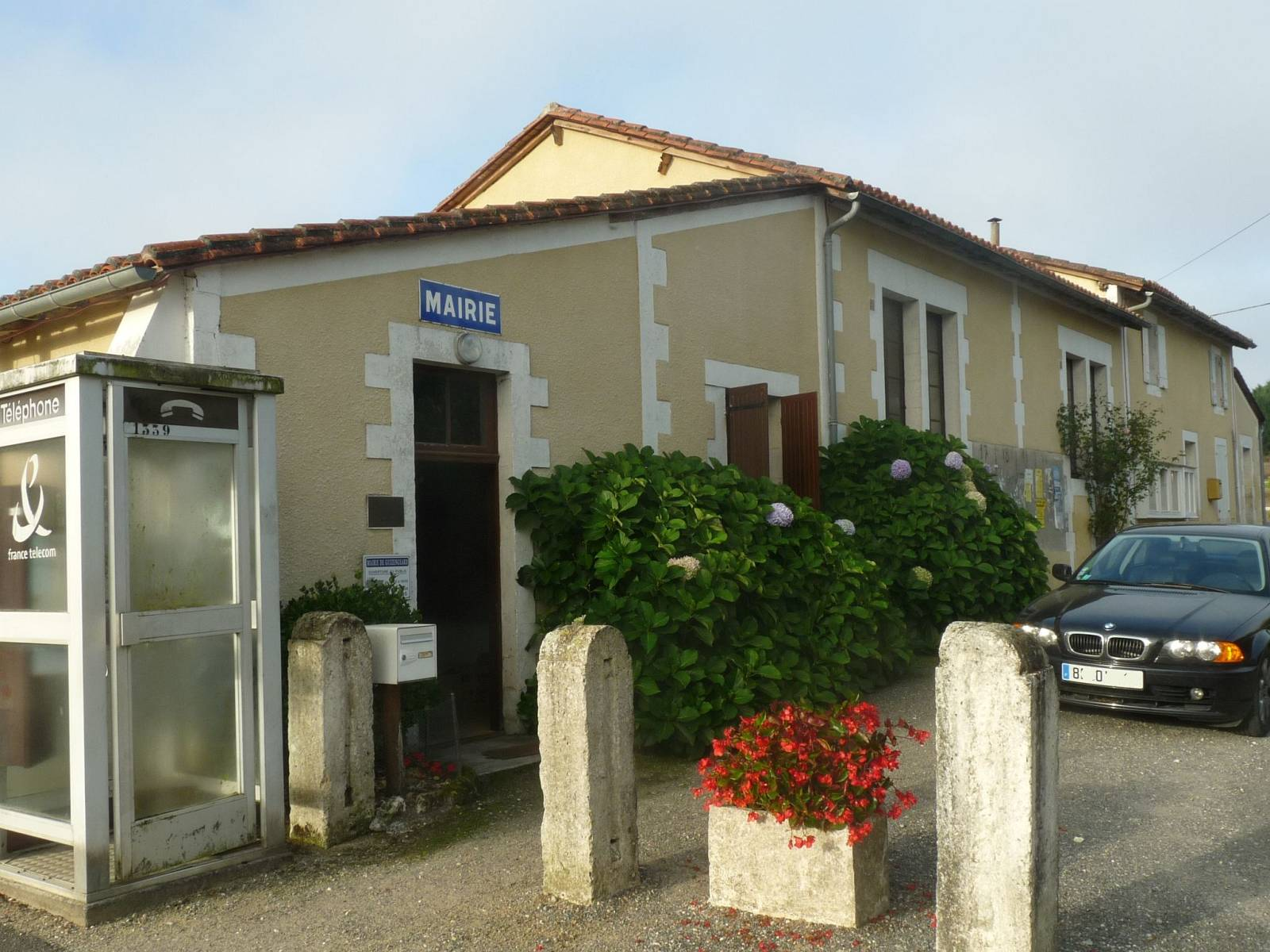 town hall